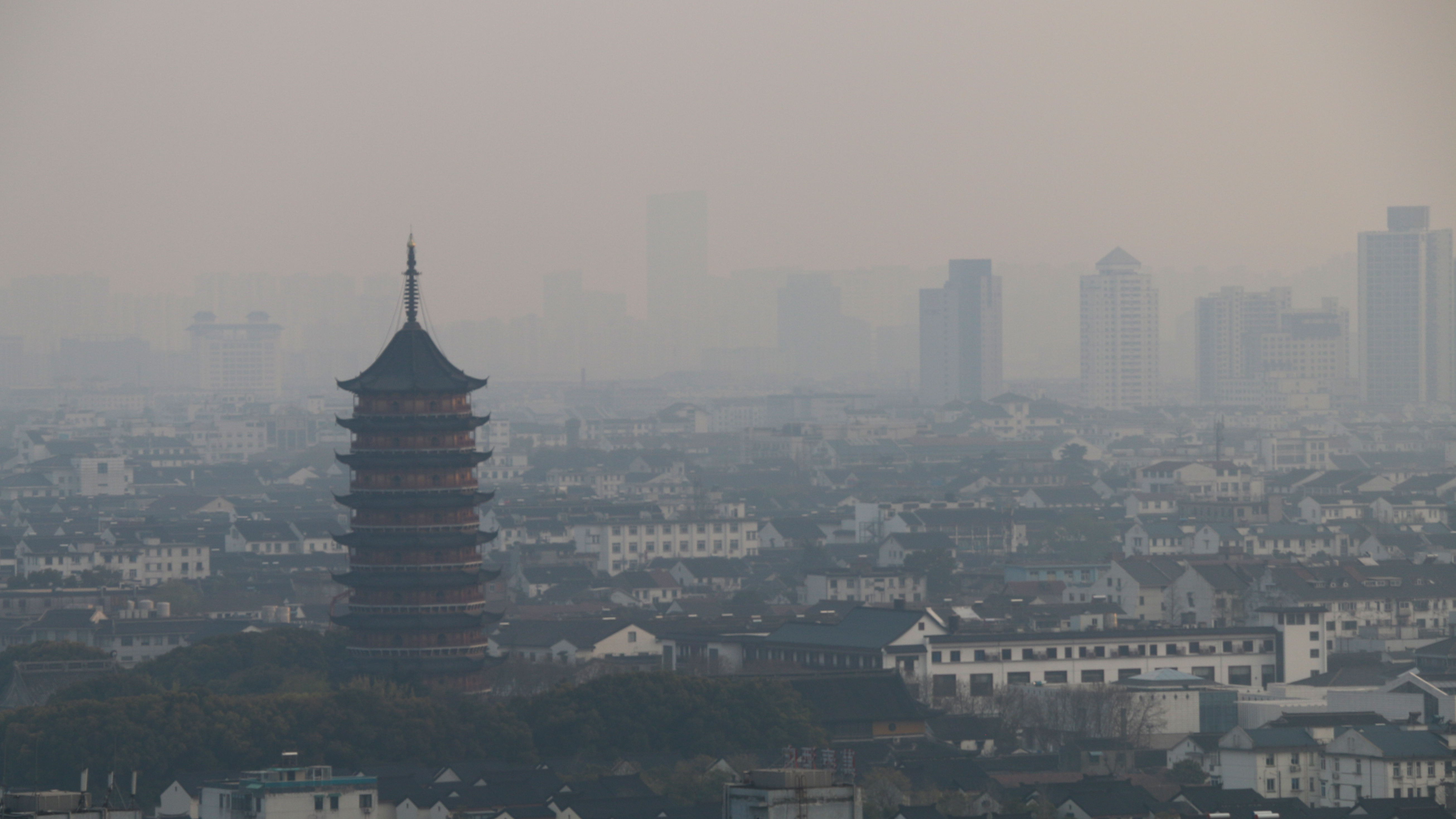 201603 Beisi Pagoda and Xiangcheng District